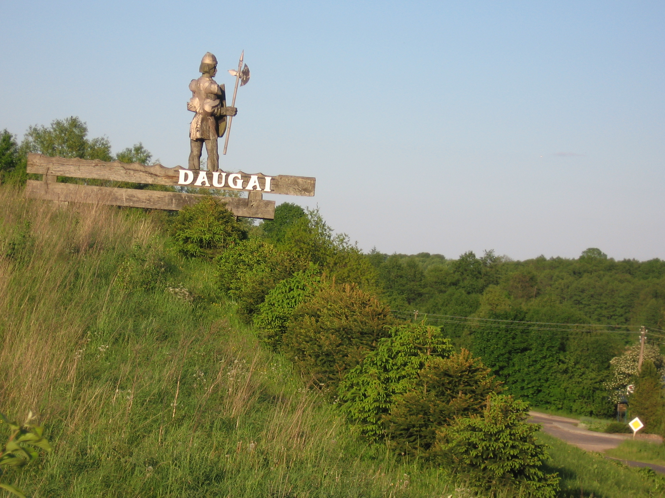 Daugai sign. Lithuania.